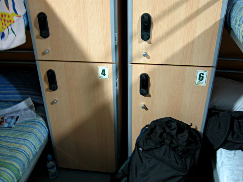 Photos of hostel lockers